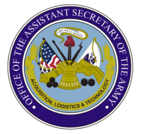 United States Office of the Assistant Secretary of the Army for Acquisition, Logistics, and Technology Logo